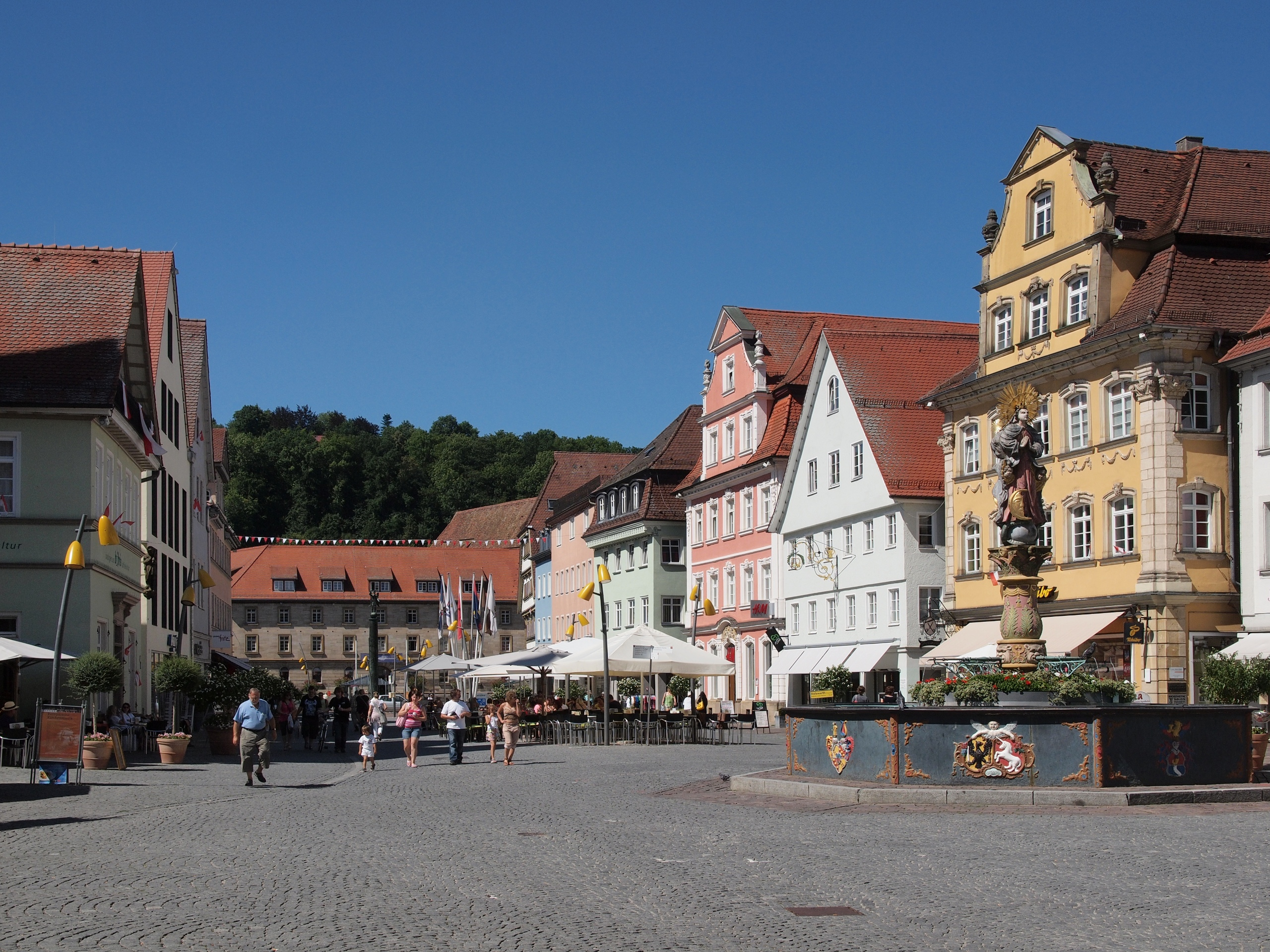 Market Square, Schwäbisch Gmünd, Germany